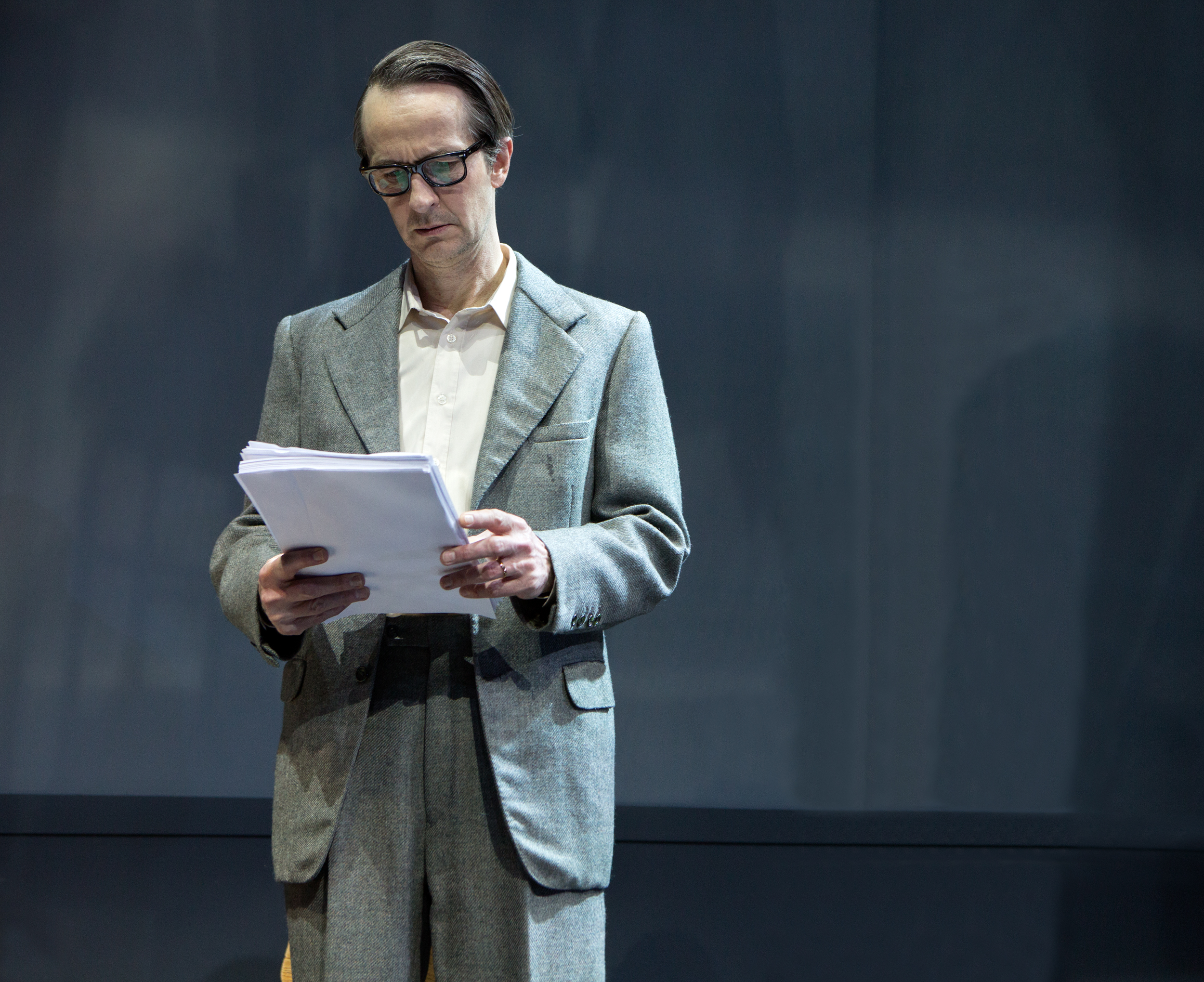 Lars Brygmann as Victor Andreasen in the Copenhagen theater Folketeatret's production of the play "Toves værelse – Tove Ditlevsens sidste kærlighed" by Jakob Weis.